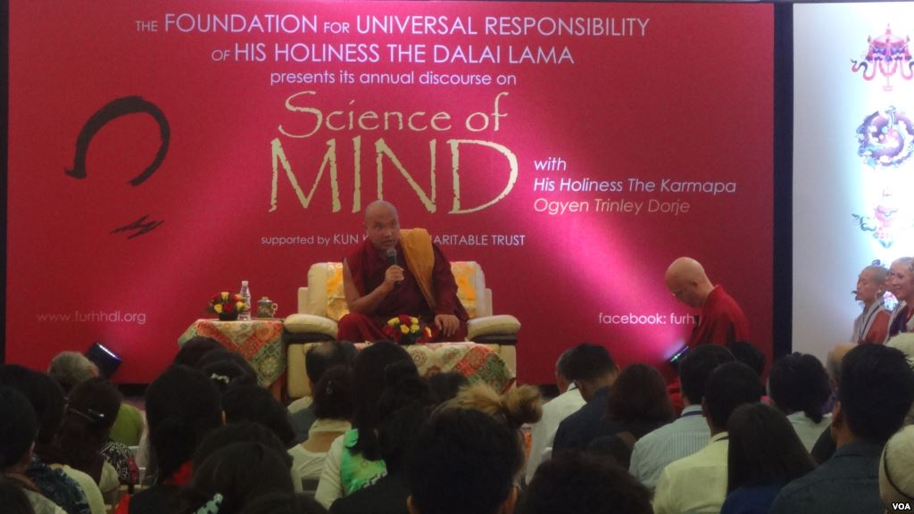 Gives Two-Day Teaching in New Delhi.